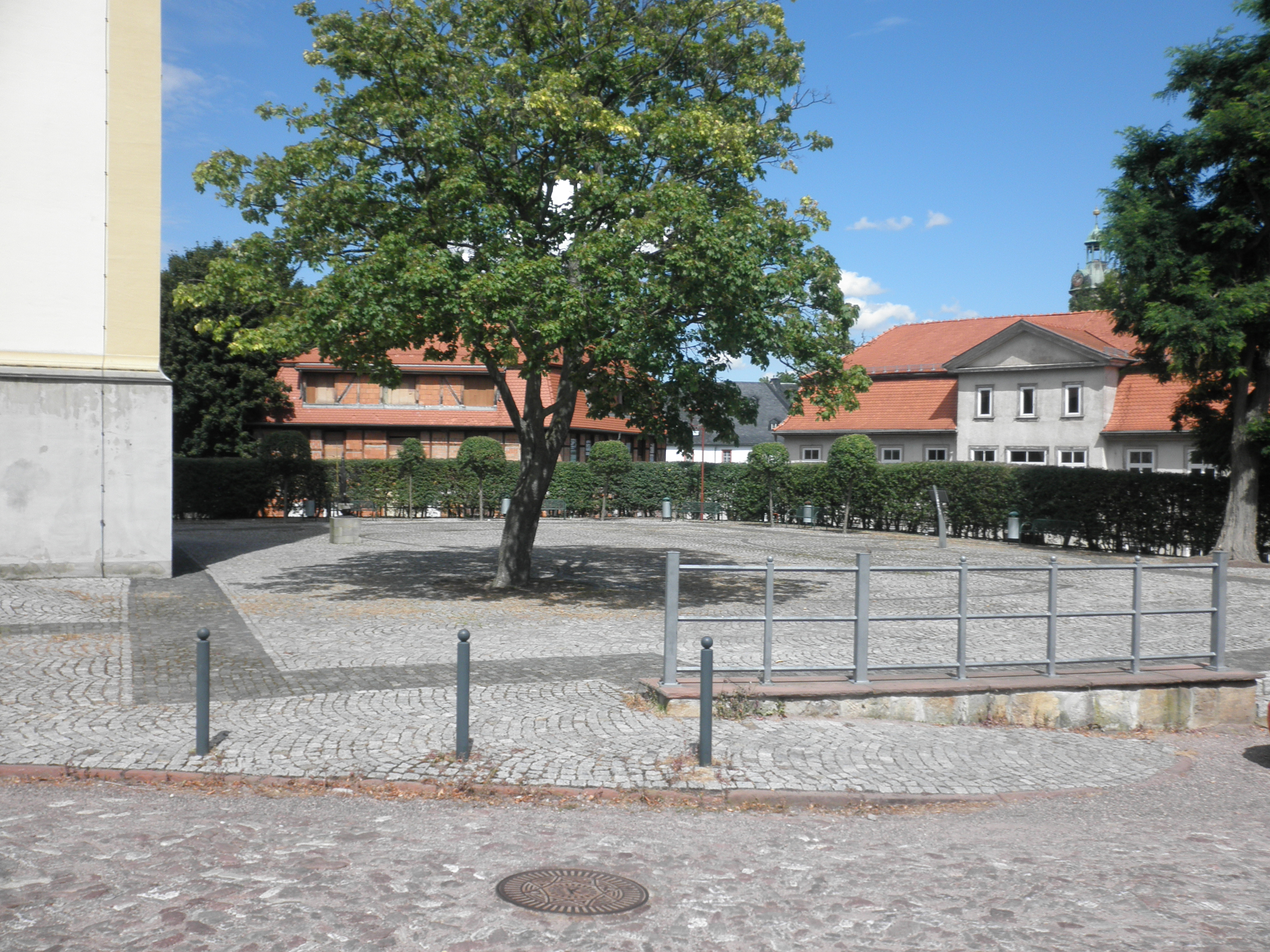 Location of the former Church St. Michael in Ohrdruf in Thuringia